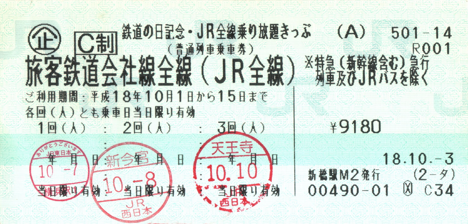 Tetsudo-no-hi Kinen JR Zensen Norihodai Kippu (literally "Railway Day commemorative all-JR unlimited ride ticket"), 3-day unlimited ride ticket sold every autumn by the JR Group